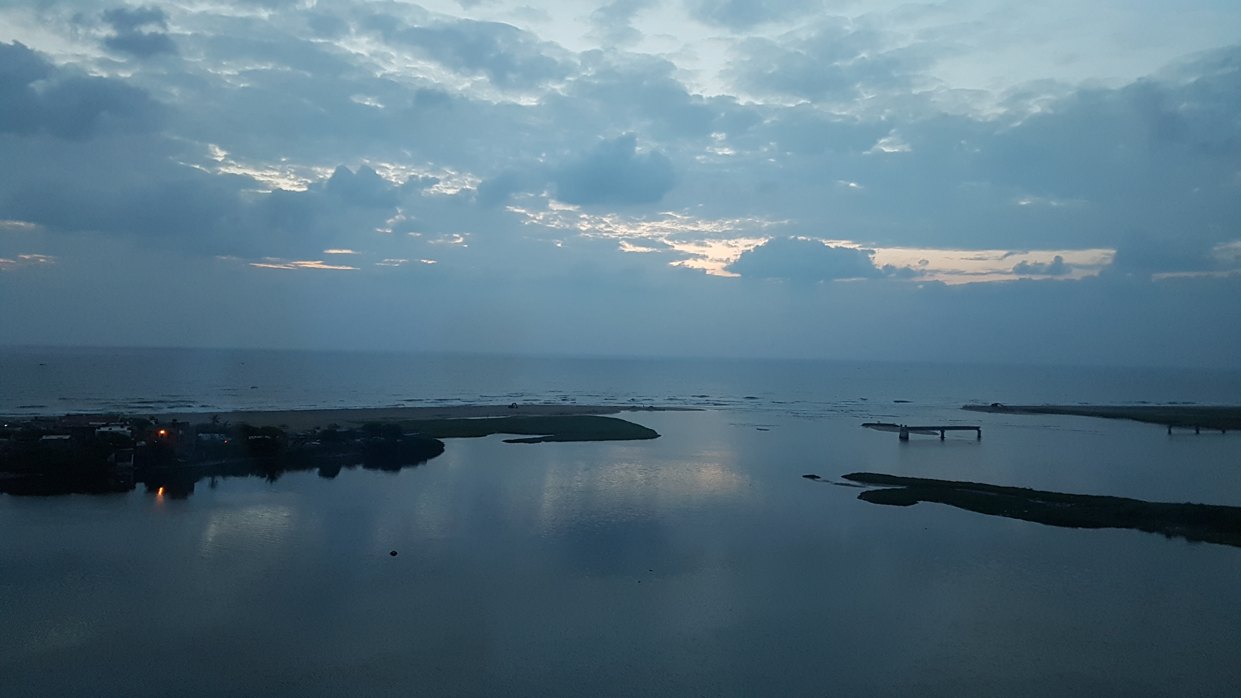 This is a december morning picture of the Adayar river joining the bay of bengal taken at 5 Am from the leela palace hotel